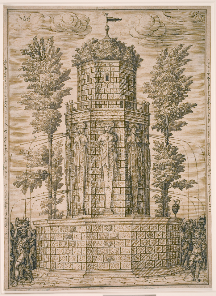 Caryatid fountain, Melchior Lorck, 1563